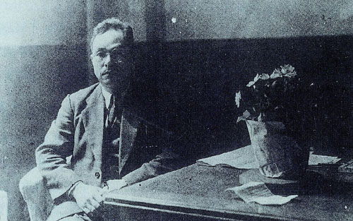 1946. 10. Pak Hon-yong. (Over 64year)